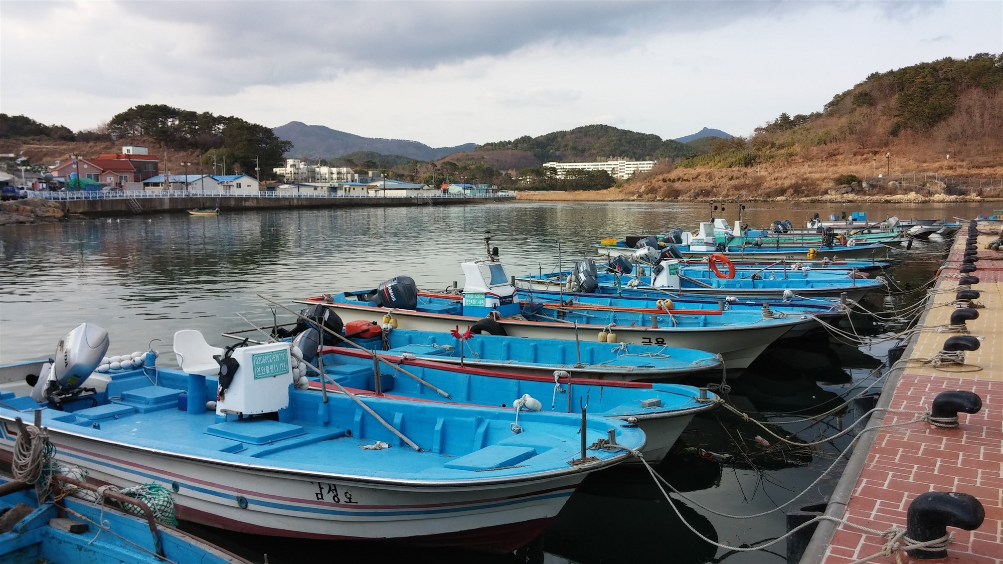 Gijang fishing village, near Busan, South Korea